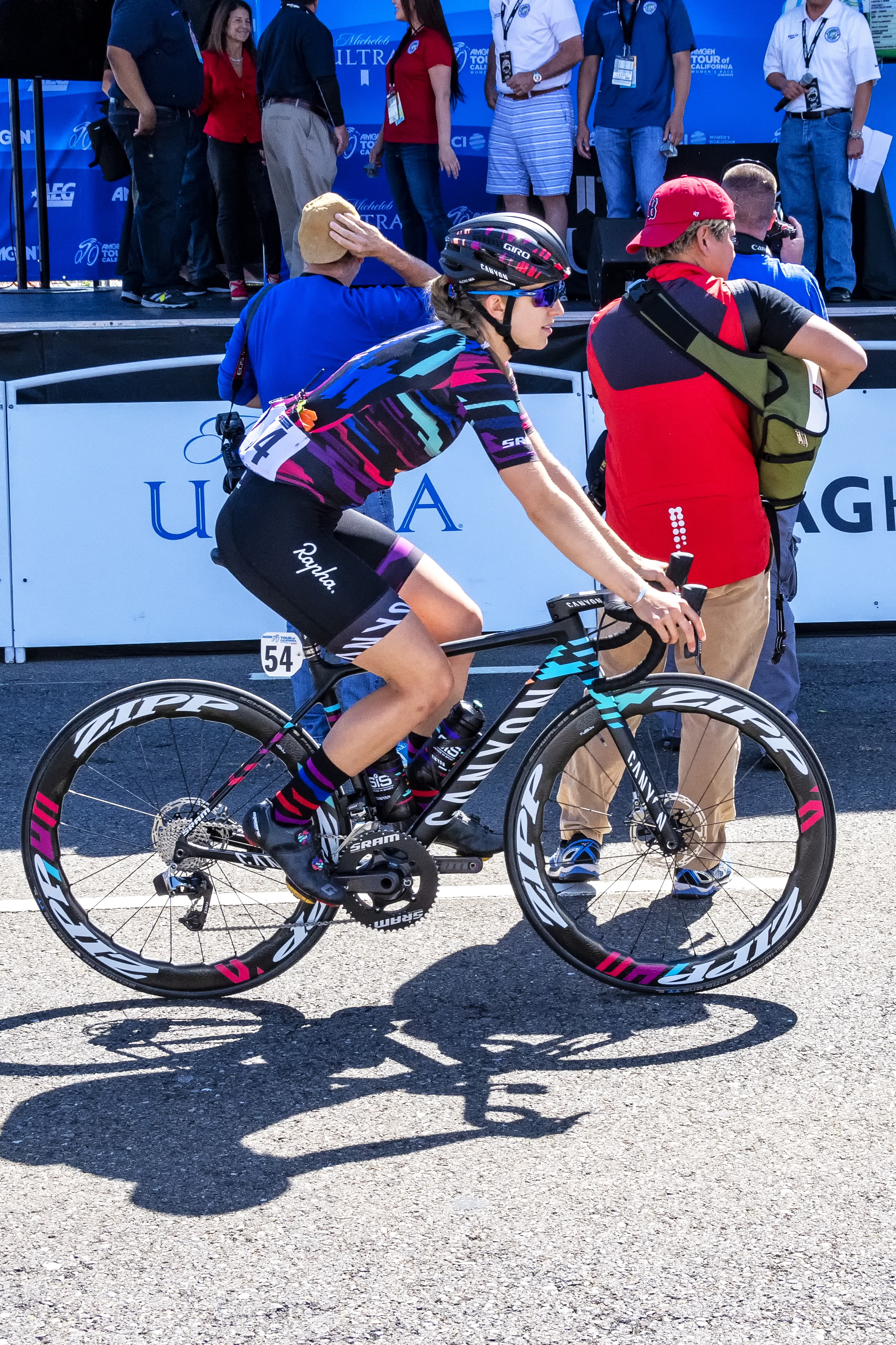 Amgen Women's Tour of California2018